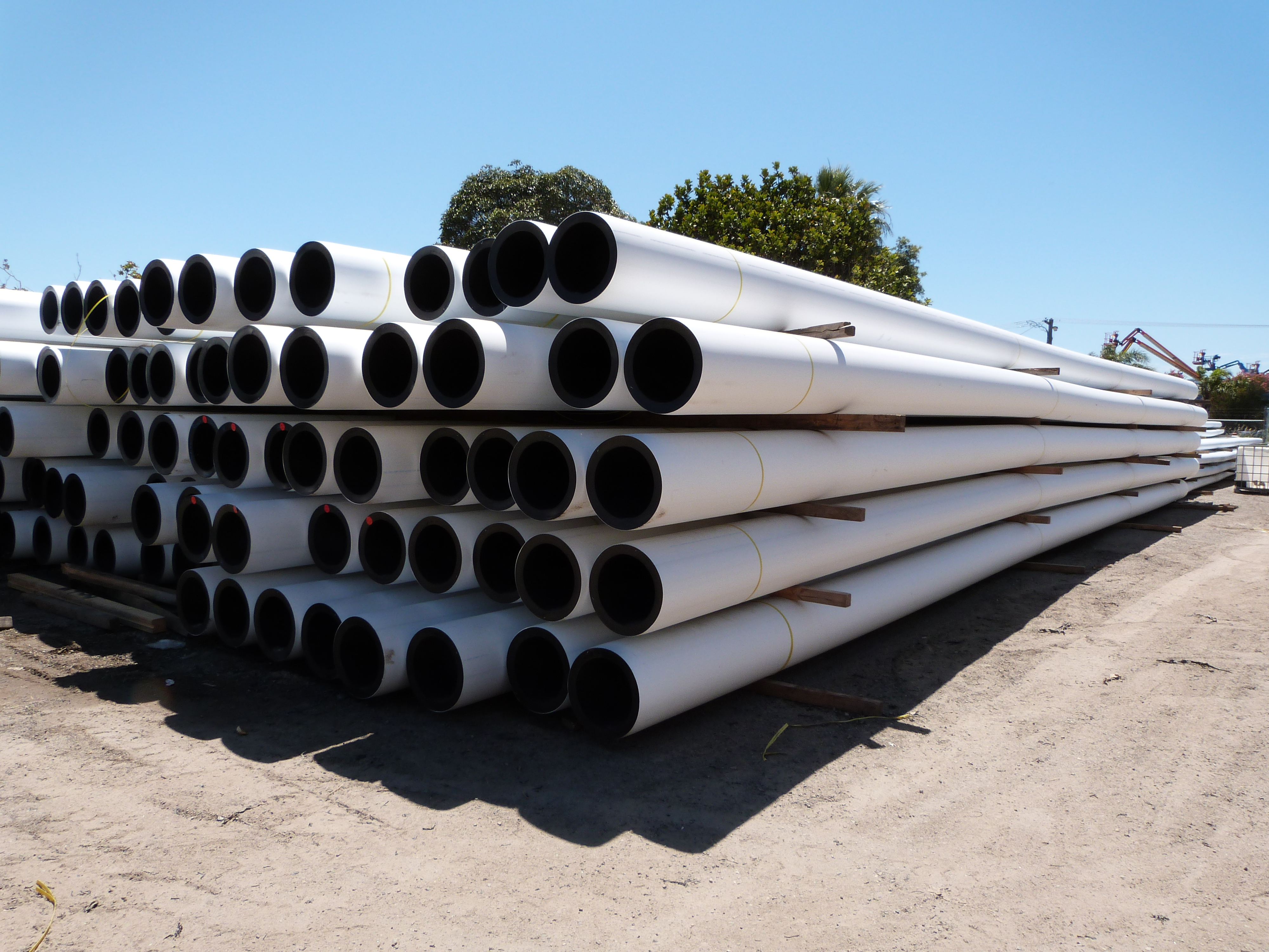 Acu-Therm Coex white skinned HDPE Pipe lengths.